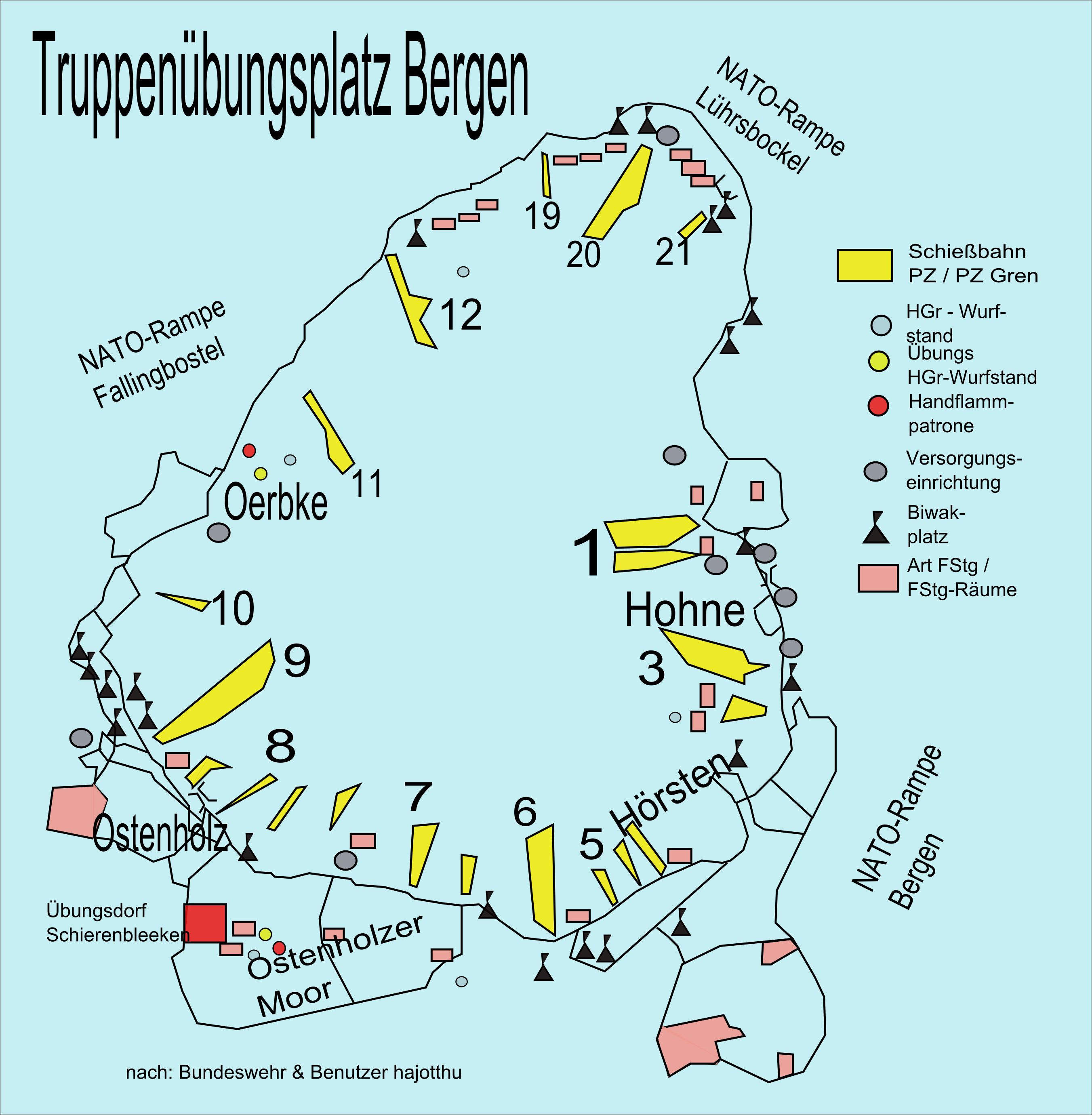 Bergen Training Area 2013